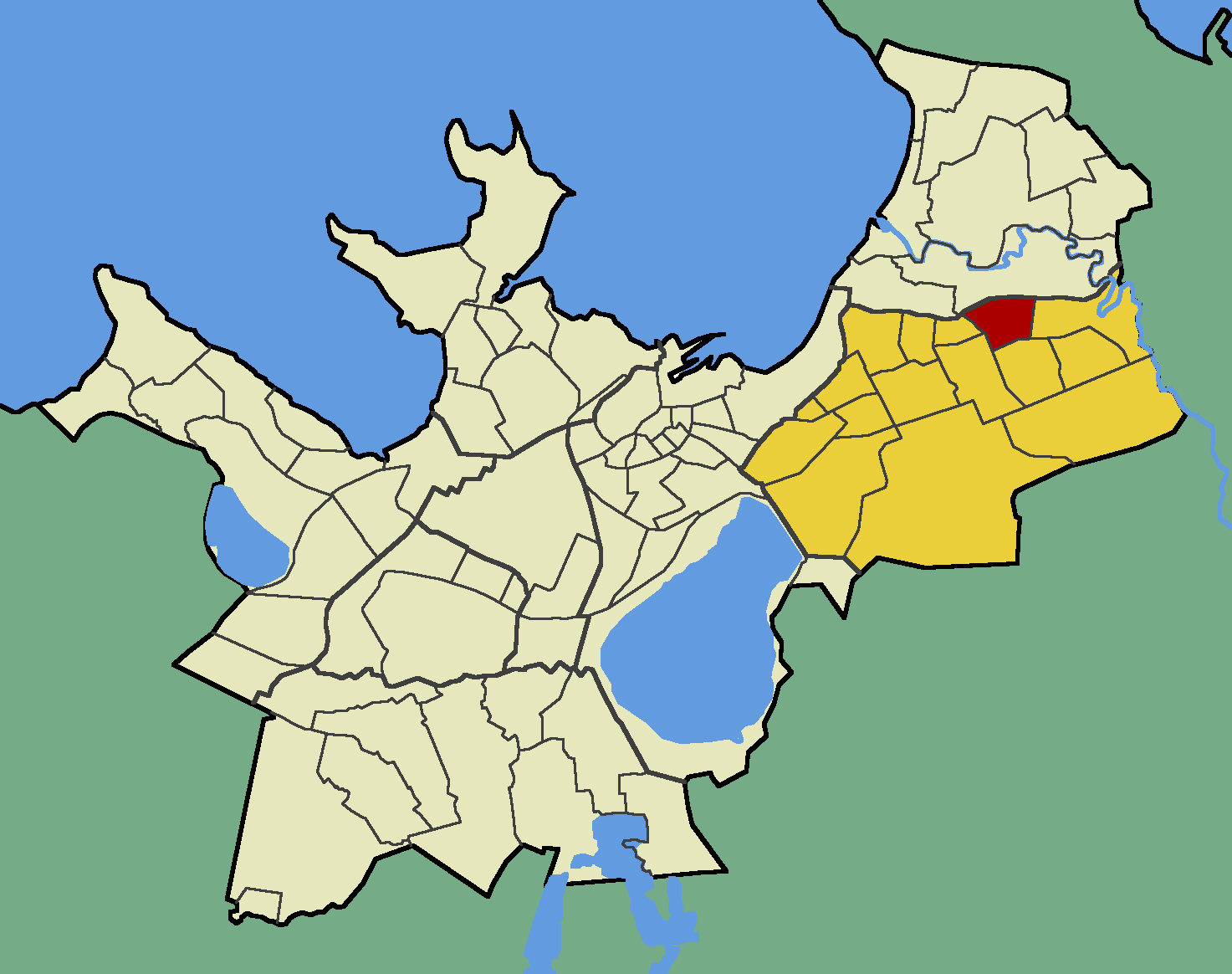 Map of Tallinn (Estonia) with borders of the quarters, Lasnamäe district and Kuristiku quarter emphasised